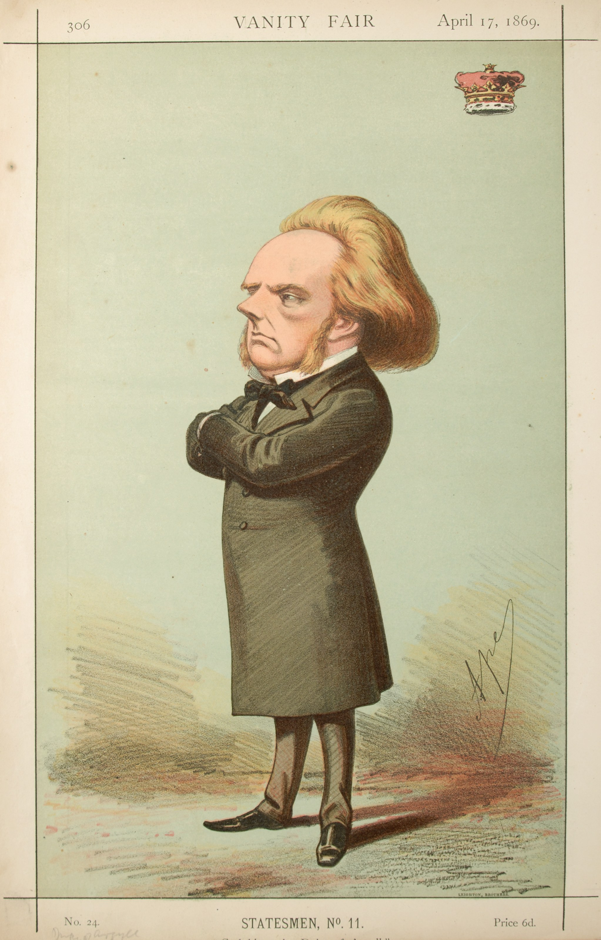 Statesmen No.11: Caricature of The Duke of Argyll. Caption reads: "God bless the Duke of Argyll."